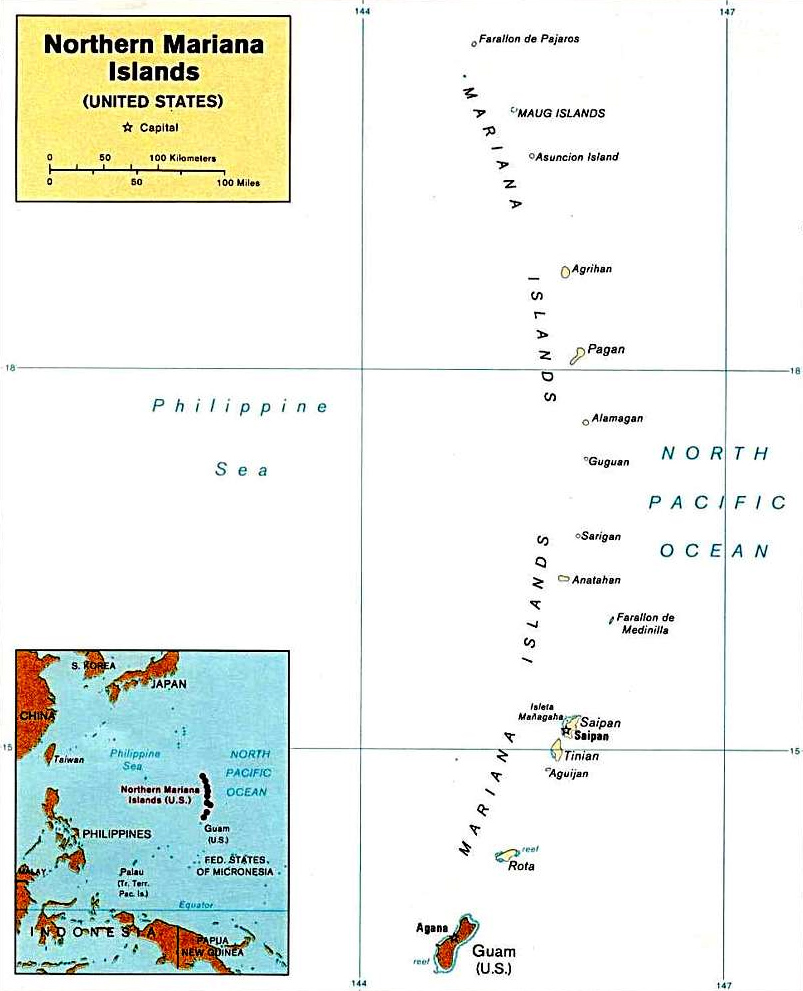 Area map of the Northern Mariana Islands.